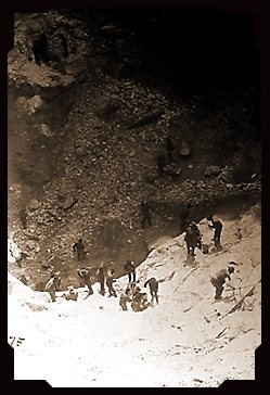 The Treadwell gold mine, while in operation.